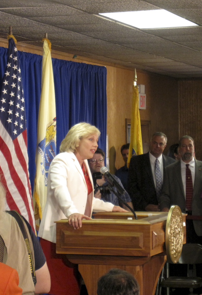 Lieutenant Governor Kim Guadagno introduces New Jersey Governor Chris Christie at the six month celebration.